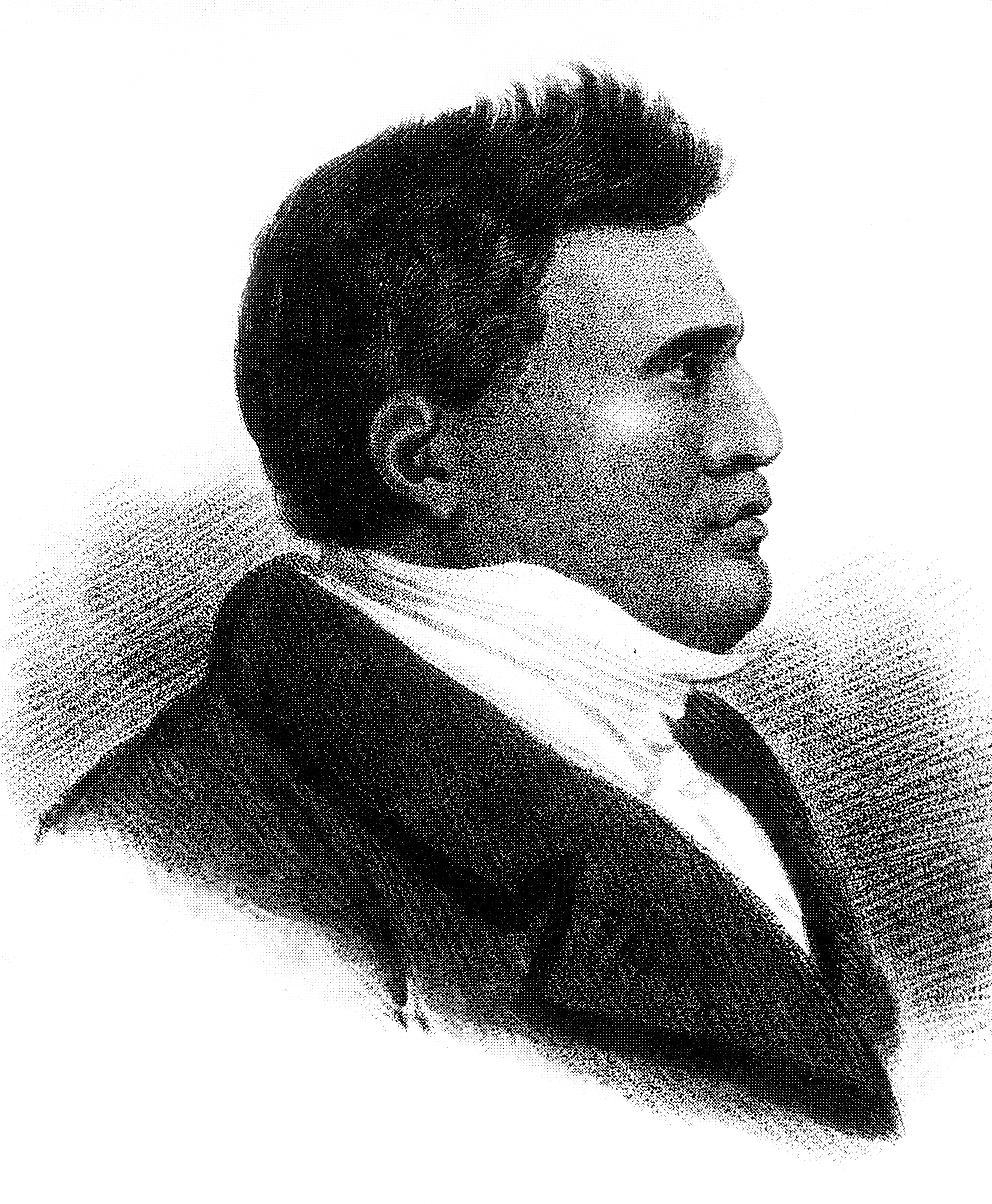 Rhio Rhio, King of the Sandwich Islands, engraved for the Lady's Magazine, intaglio print, hand-colored with watercolor, by an unknown artist, 1824. King Kamehameha II of the Kingdom of Hawaii (c. 1797–July 14, 1824) was born with the name Liholiho. He came to the throne in 1819, but true power was held by Ka'ahumanu, the former Queen. He sailed to London England in 1823, where he died of measles before his scheduled audience with George IV. His body was sent back on the HMS Blonde under Lord Byron. This sketch was made just before he died in London.